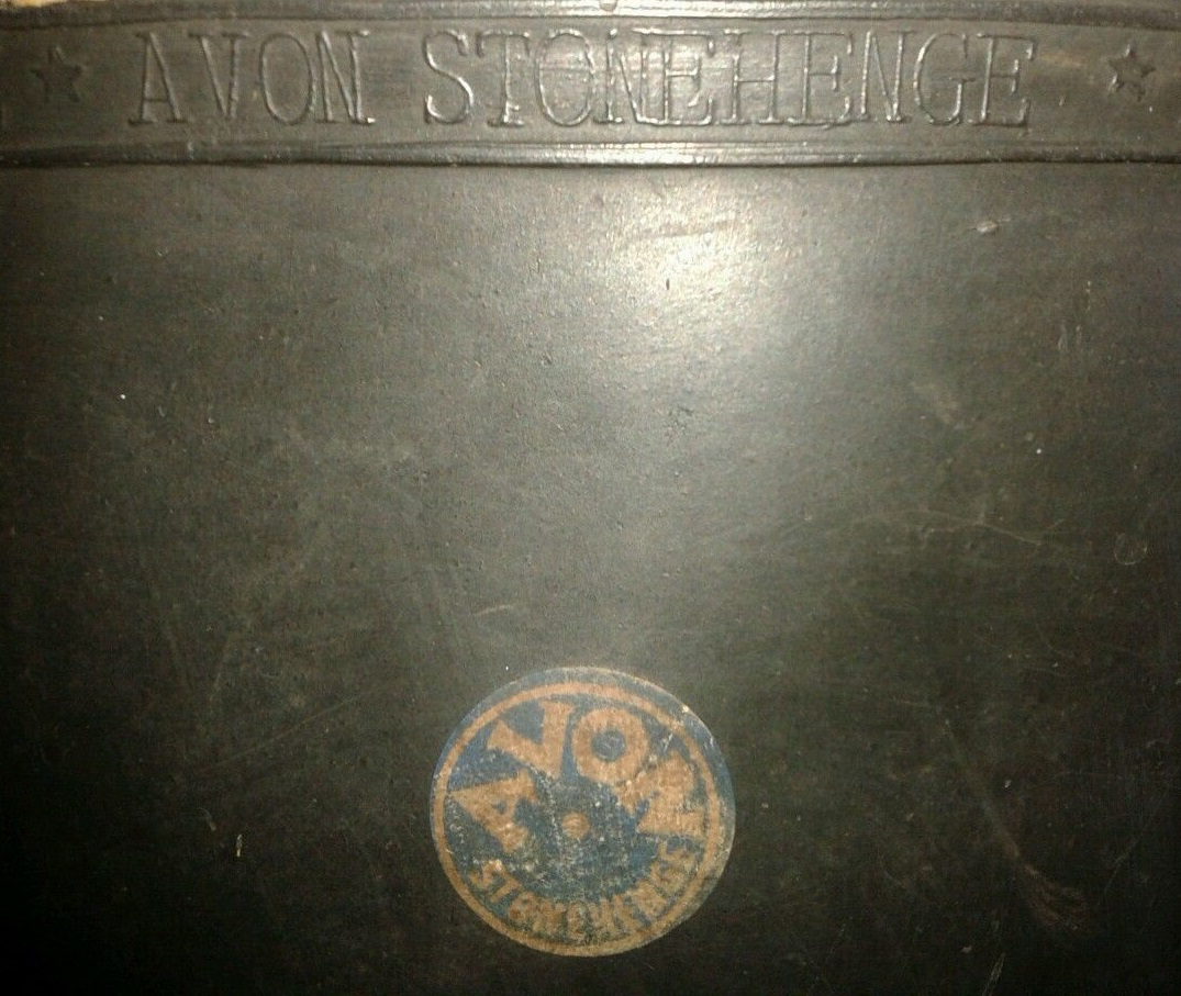 Detail from an Avon Stonehenge moulded rubber lined wellington boot with name of manufacturer and product embossed on top band and printed on leg label.